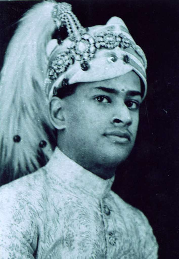 This is the photograpl of the last ruling monarch of Travancore, Maharajah Chithira Thirunal Balarama Varma taken in 1938.